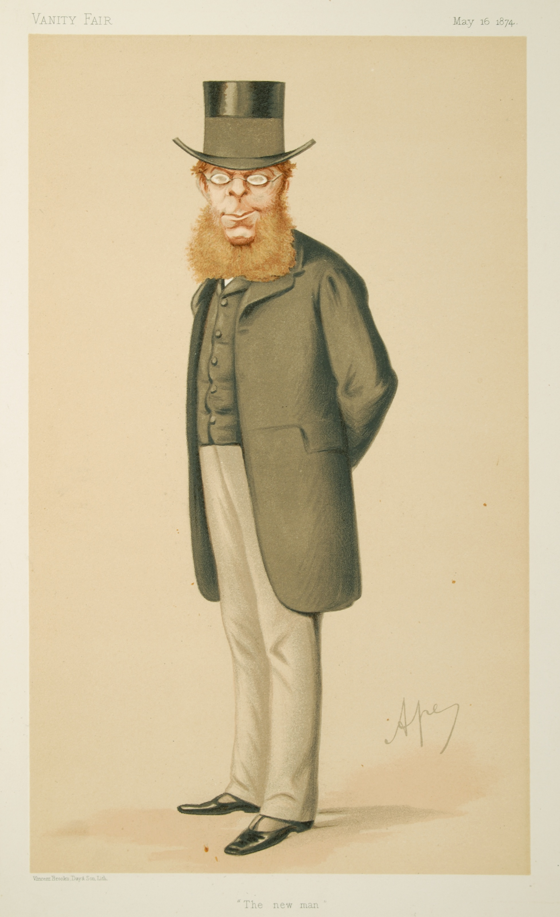 Statesmen No.171: Caricature of Right Honourable Richard Assheton Cross, M.P.. Caption read "The new man".